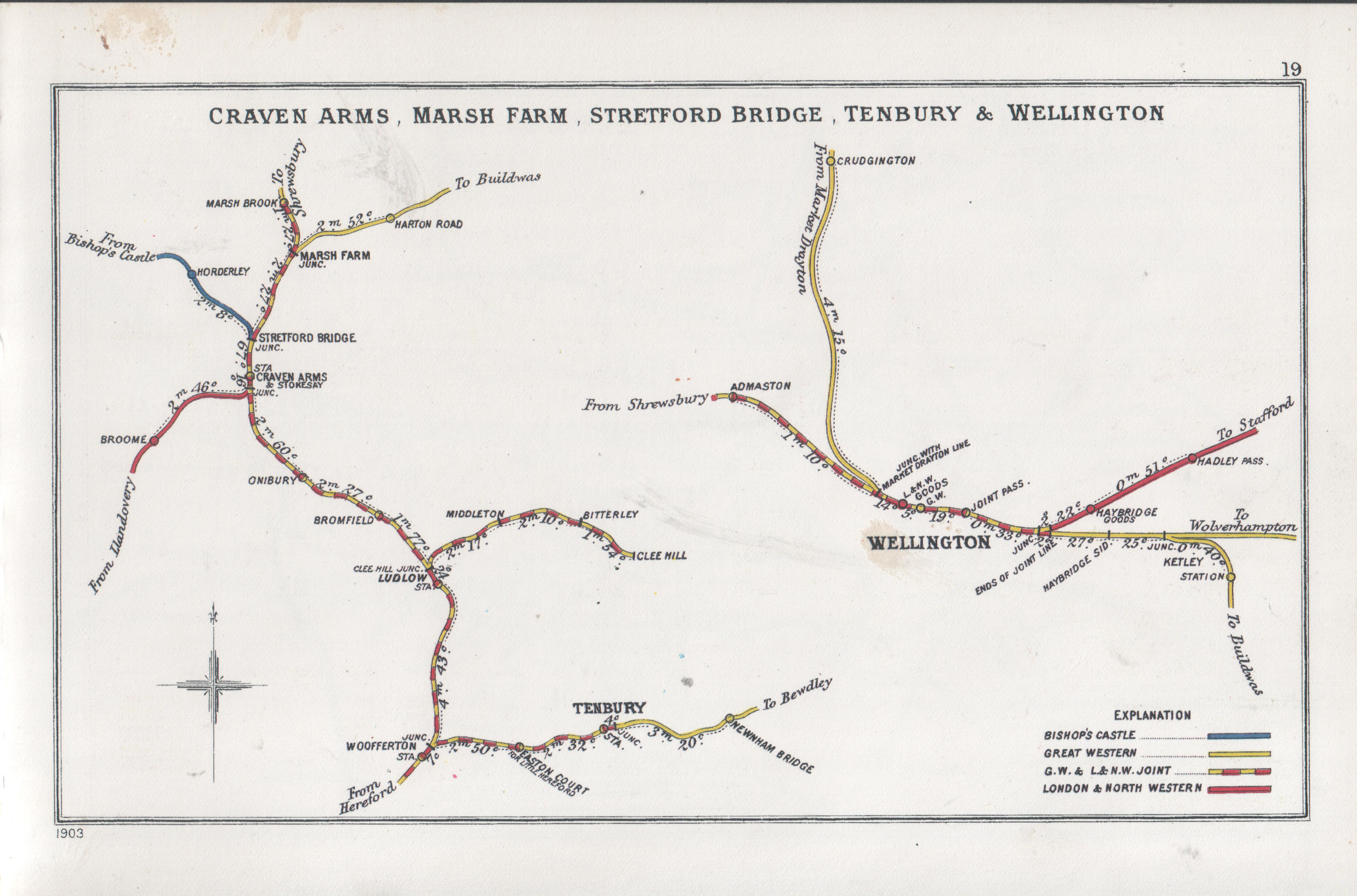 Pre Grouping railway junction around Craven Arms, Marsh Farm, Stretford Bridge, Tenbury & Wellington